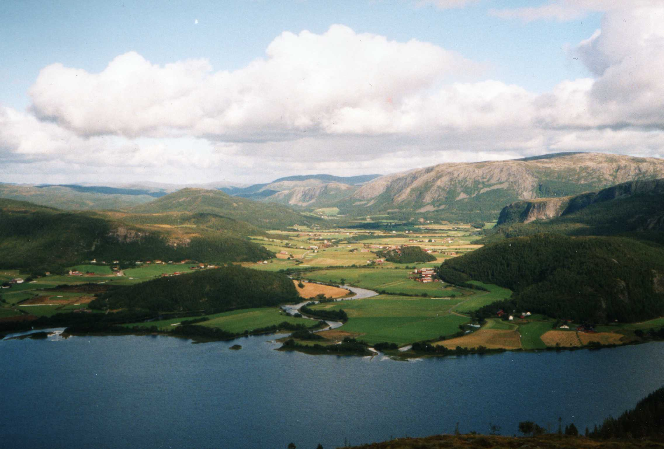 By in Åfjord